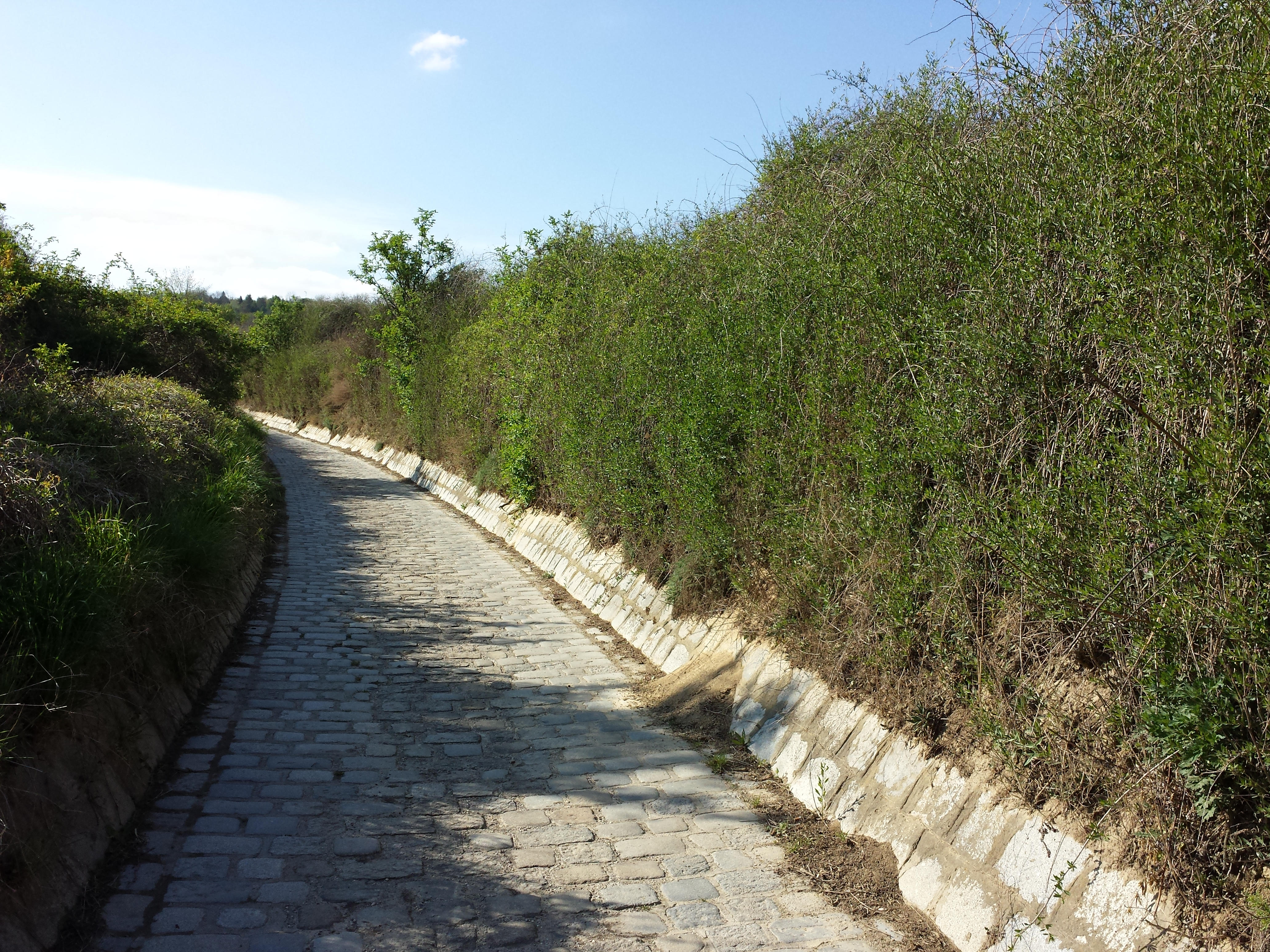 Kallusweg at Falkenberg, Vienna-Floridsdorf The Loess walls are overgrown by Lycium barbarum, an invasive plant which was planted by forest officials in some places in Austria. The ground is sealed and degraded.